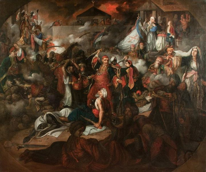 Painting by Katarina Ivanović (c. 1844–45)